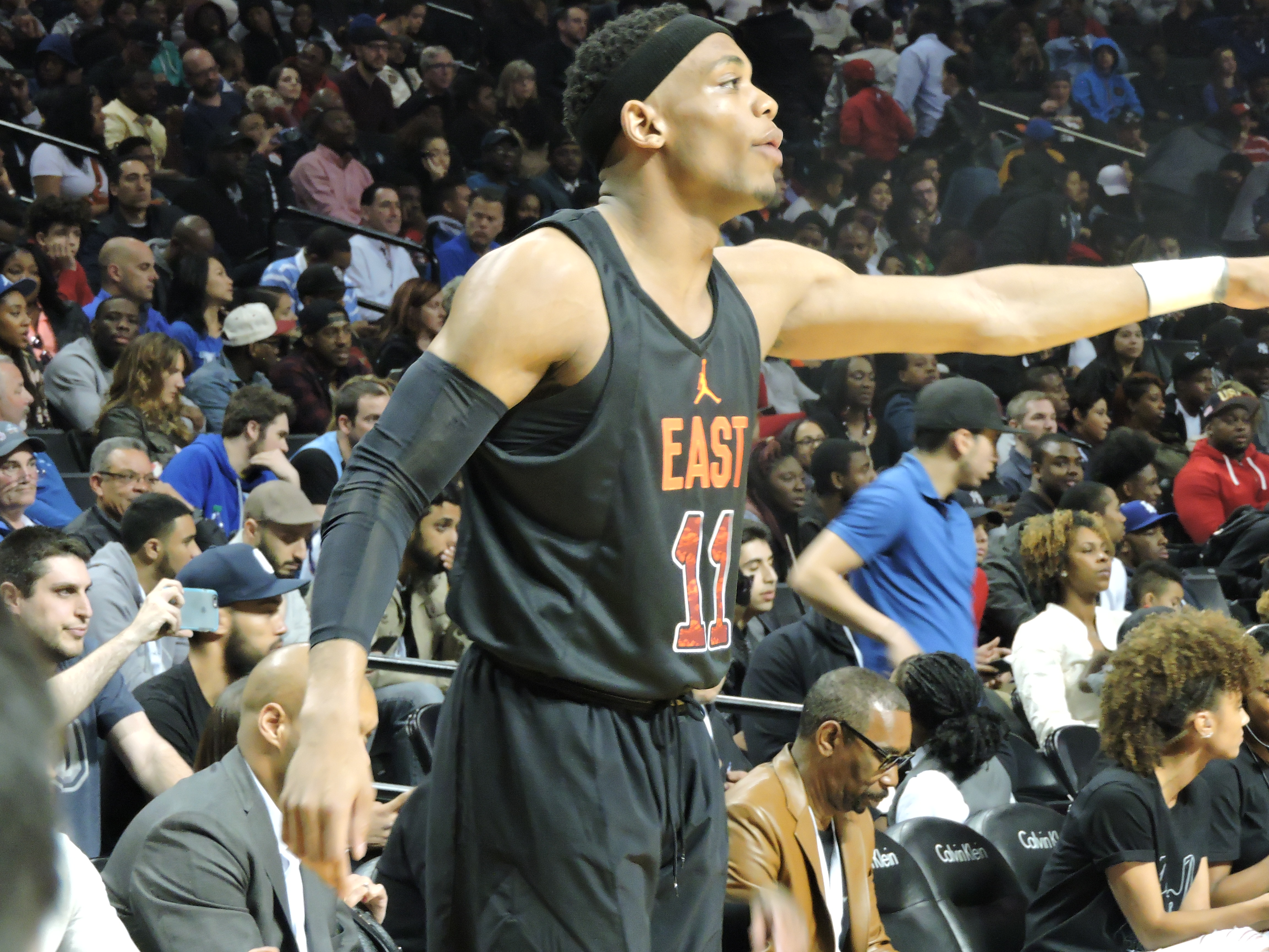 Bruce Brown Jr at the Jordan Brand Classic